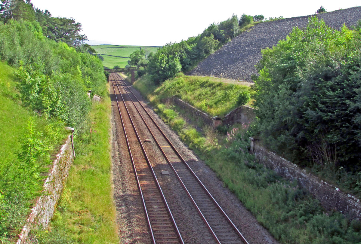 The site of Crosby Garrett station (closed) looking south in August 2016